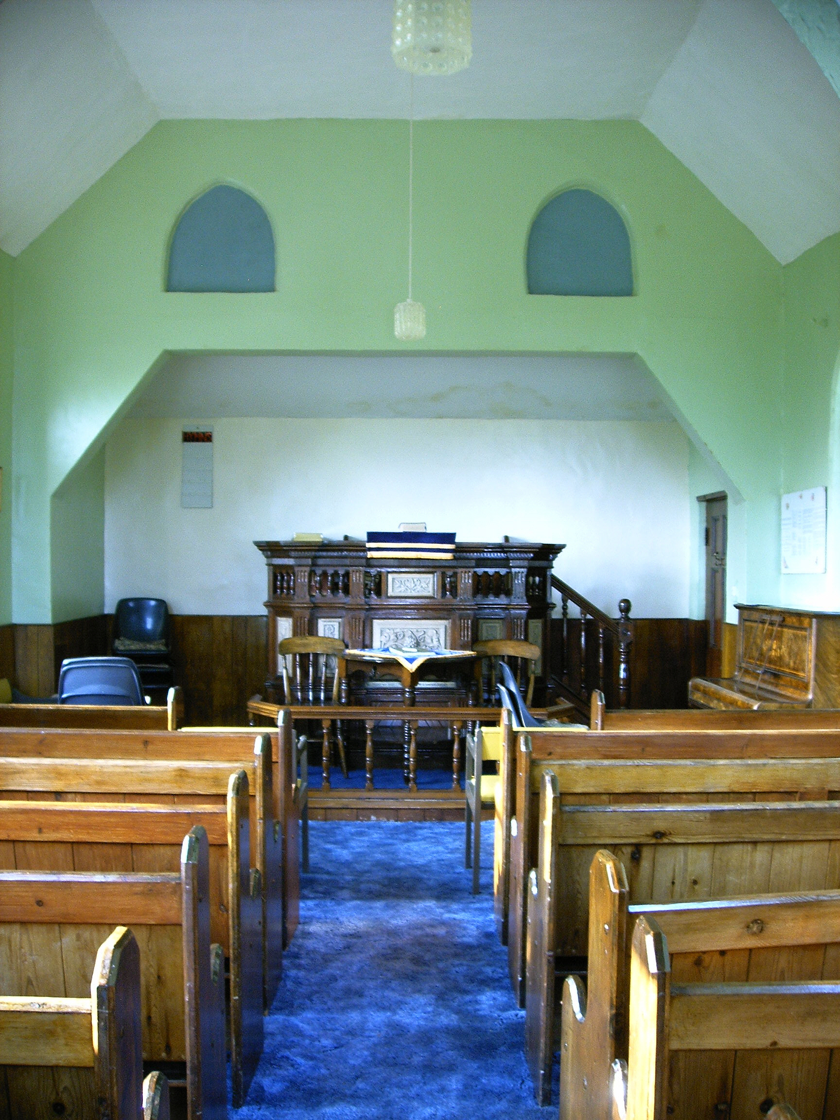 Ramsor Primitive Methodist Jubilee Chapel interior view from main entrance. The pulpit came from Gun End Chapel (near The Roaches, Staffordshire) replacing the original one which was unsafe. Both pulpits were similar, and that from Gun End could have been made for Ramsor. The light panels are wood carvings.